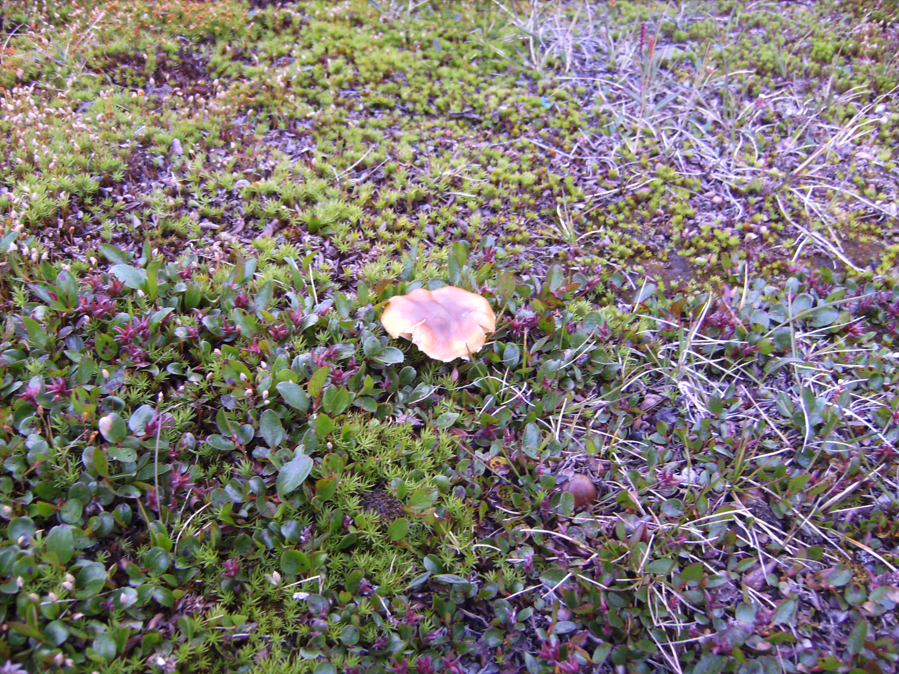 Tundra and a mushroom at Spitsbergen, Svalbard